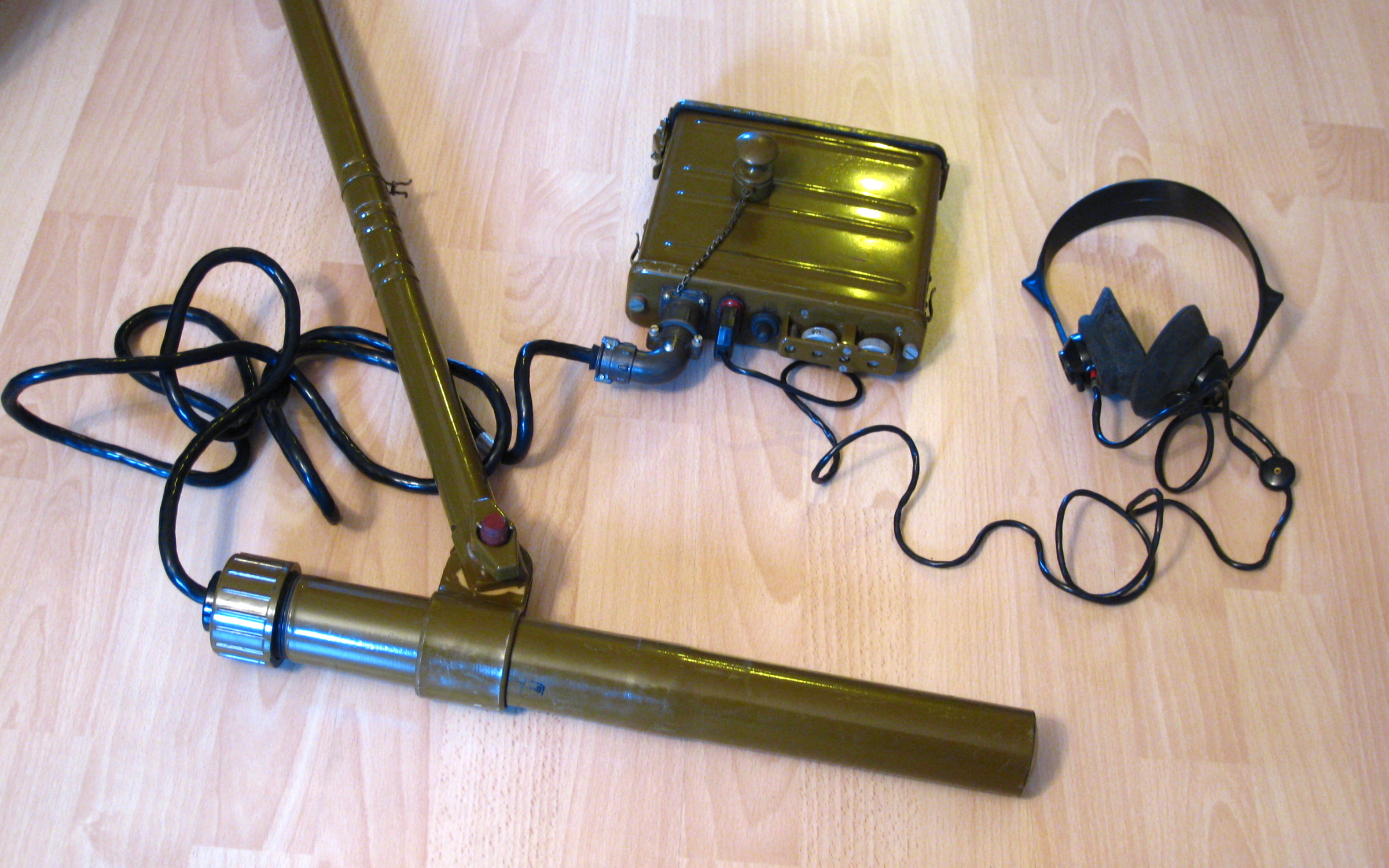 Soviet IMP-1 mine detector set (detector head assembly, tuning box and headphones).